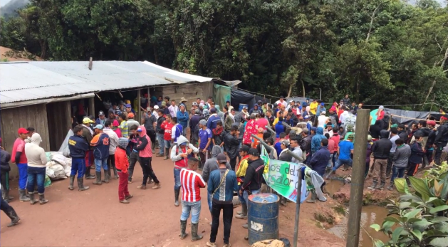 displaced people at Catatumbo